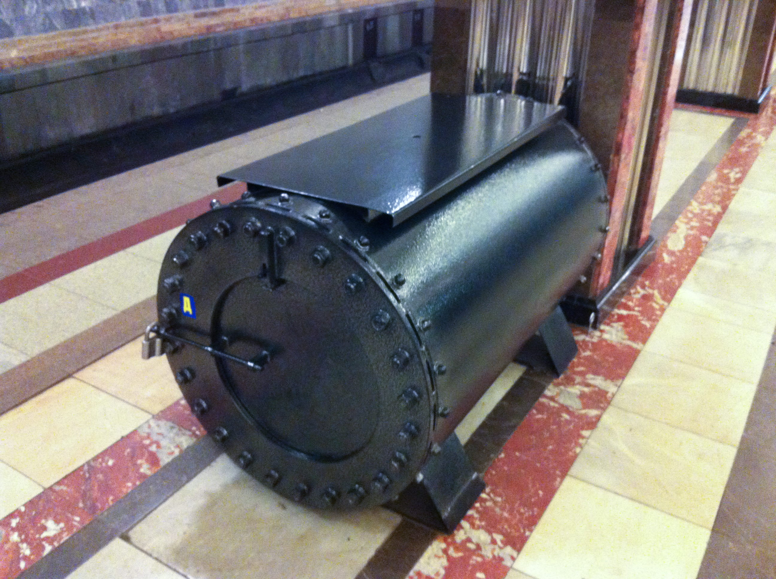 Bomb container in Moscow subway June 2012